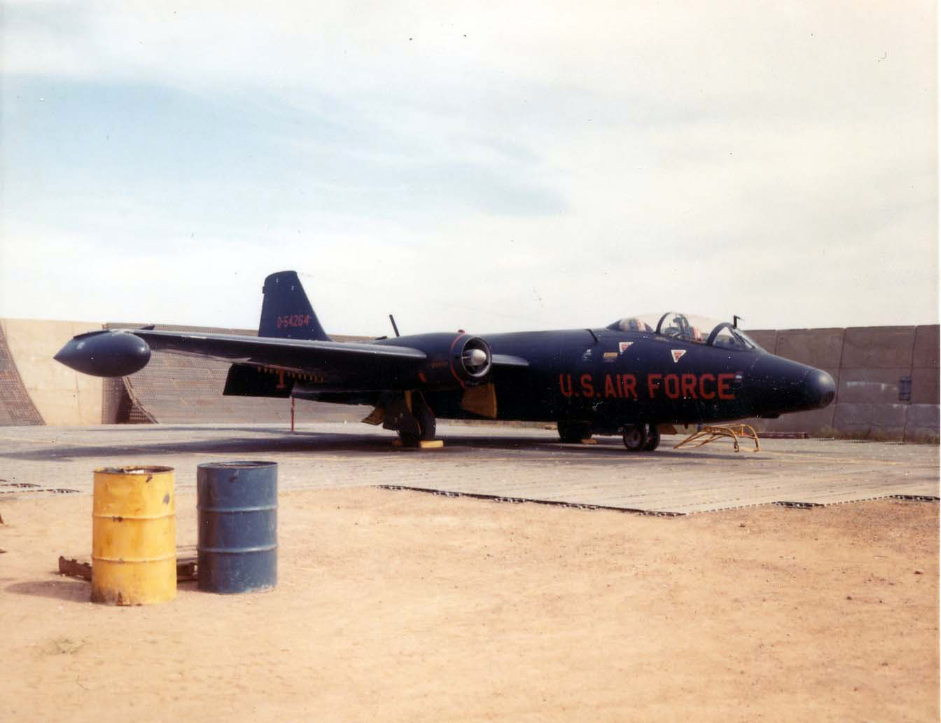 Martin RB-57E -Patricia Lynn- 3-4 front view at Da Nang AB, South Vietnam, January 1960